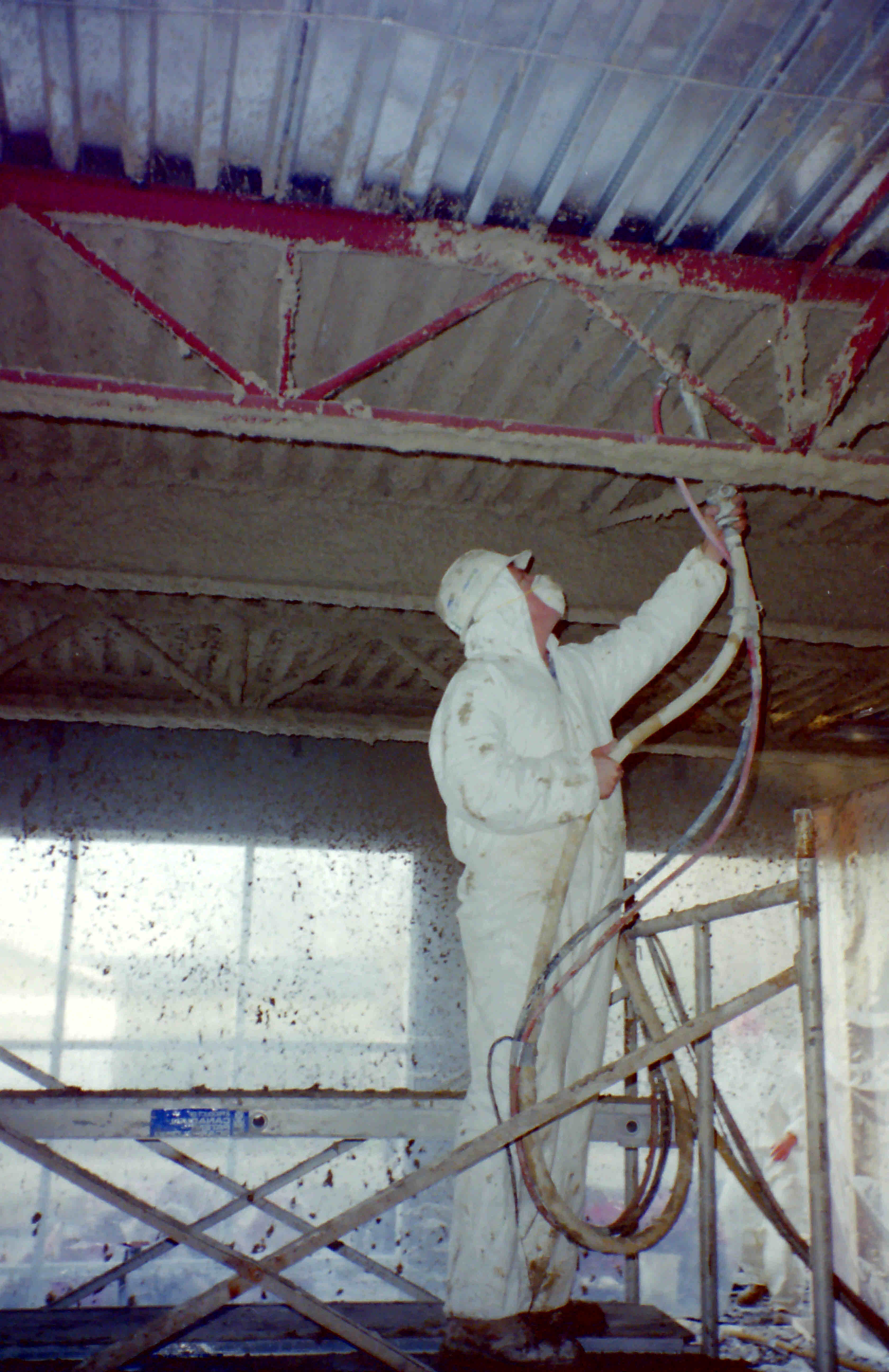 From: Example of spray fireproofing, using a gypsum based plaster in a low-rise industrial building in Vancouver, British Columbia. The plaster provides a layer of insulation to retard heat flow into structural steel elements, that would otherwise lose their strength and collapse in an accidental fire. Fireproofing is an integral part of passive fire protection und thus subject to stringent bounding.